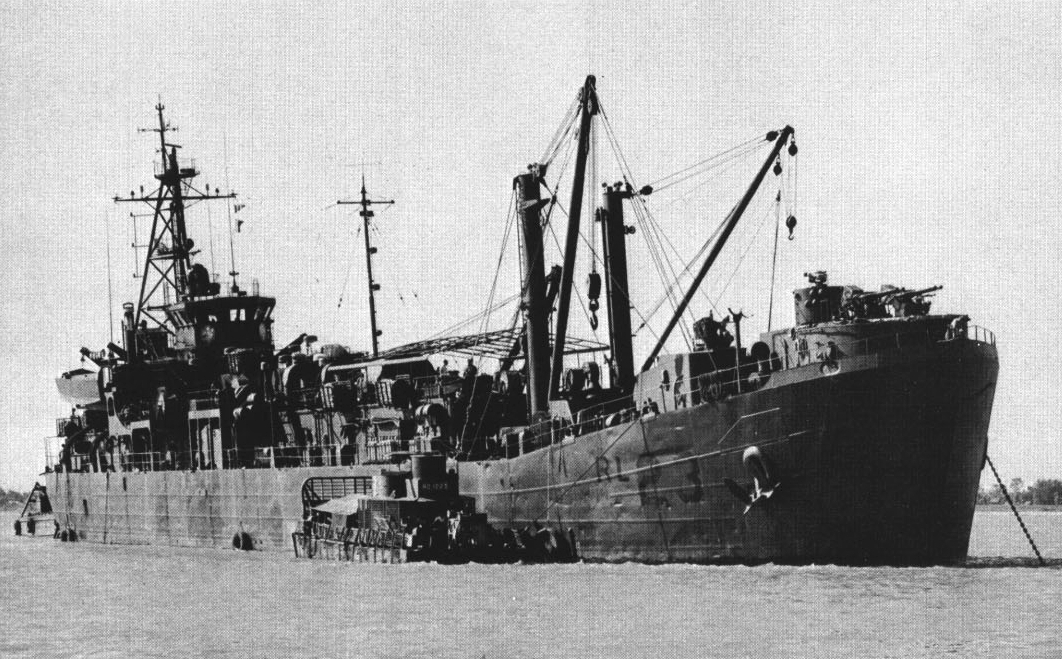 The U.S. Navy landing craft repair ship USS Satyr (ARL-23) on the Mekong River. Satyr was based there from 1968 to 30 September 1971, when she was transferred to the Navy of South Vietnam.